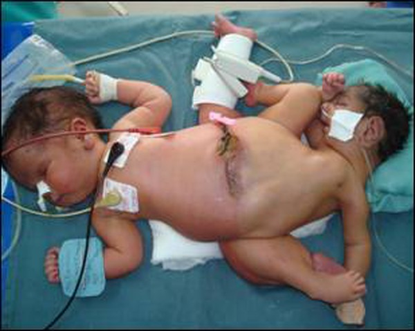 Conjoined Ischiopagus tripus twins during pre-evaluation. However, these twins died before surgery to separate them due to complications. Other information Copyright © 2011 Khan YA. This is an open-access article distributed under the terms of the Creative Commons Attribution License, which permits unrestricted use, distribution, and reproduction in any medium, provided the original work is properly cited.